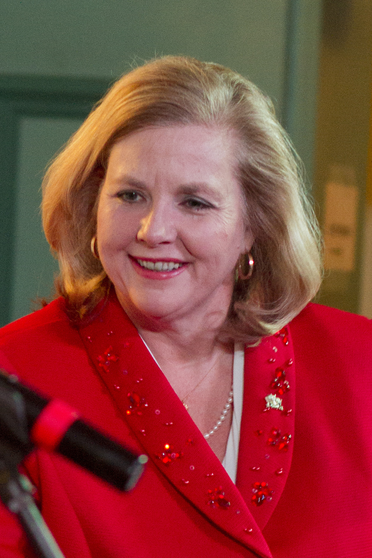 Catherine Hanaway at the first 2017 Republican gubernatorial Governor debate in February 2016.